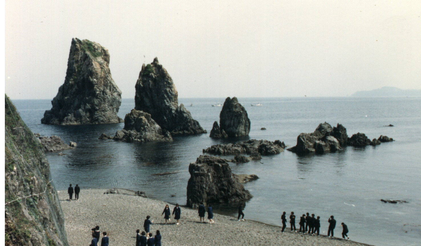 picture taken during a school excursion of the junior high school